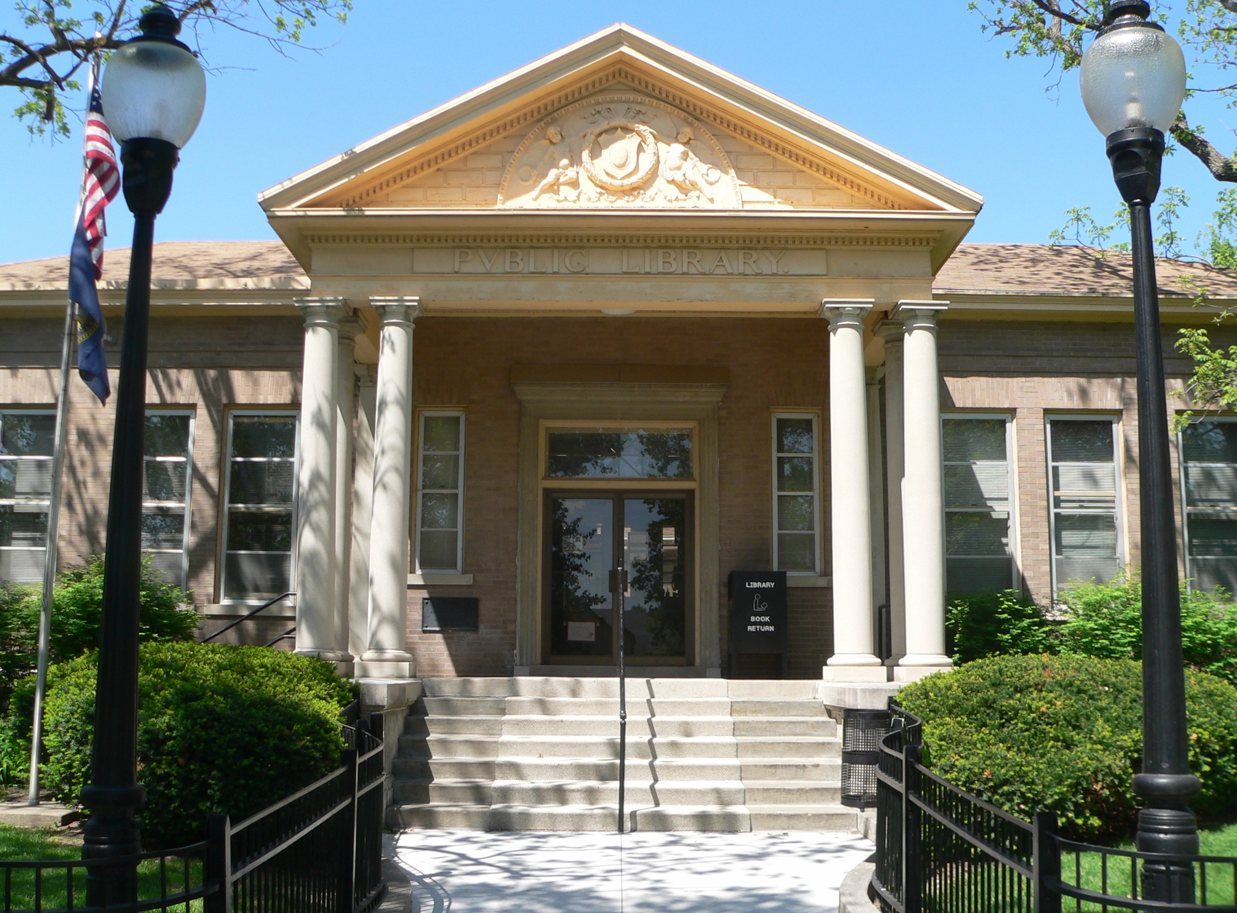 Carnegie library, located at 601 7th Street in Fairbury, Nebraska: front (south) entrance.